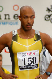 Picture of Chris Lambert (athlete)